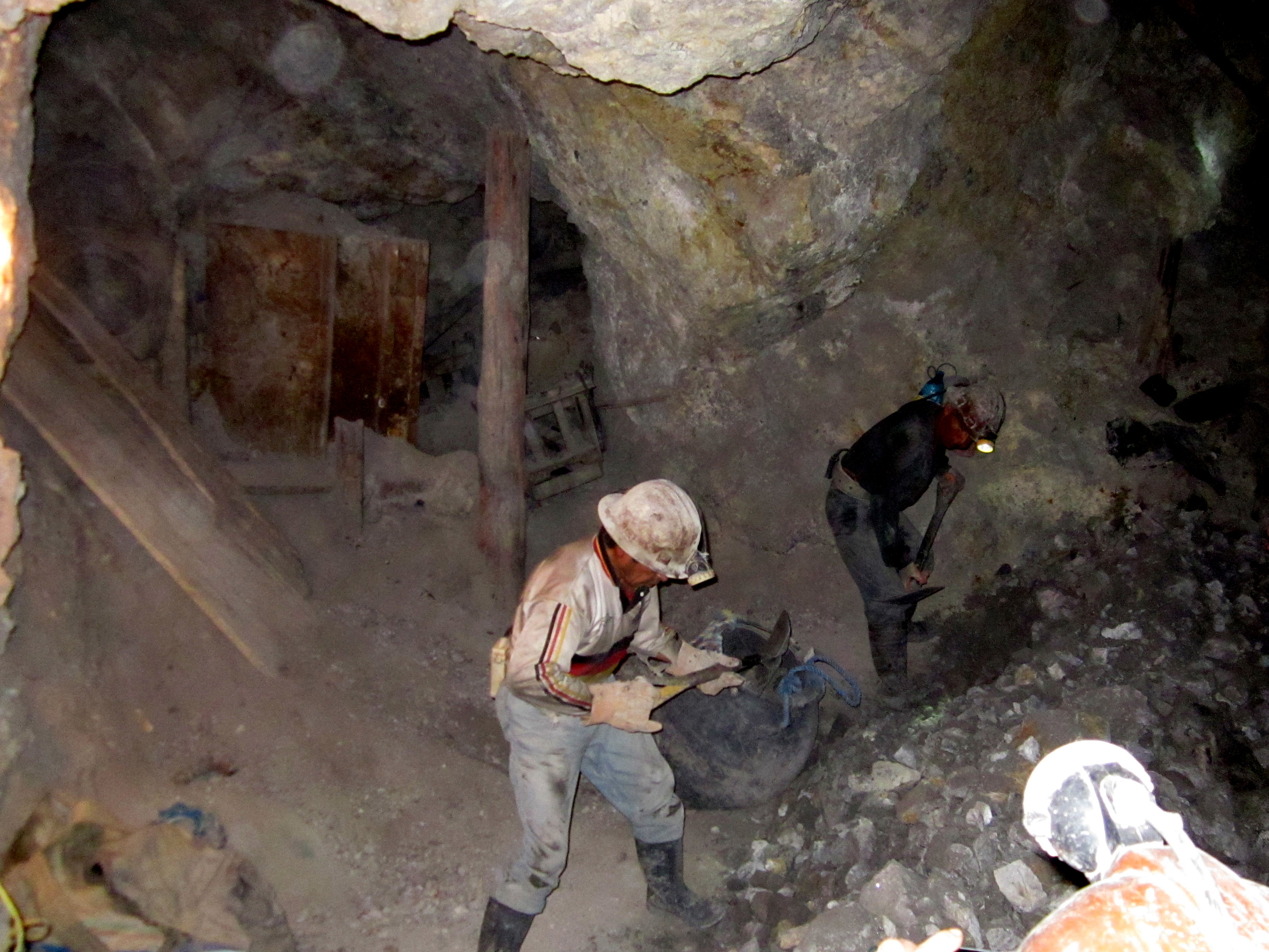 Mine workers in the Rosario mine of Cerro Rico, Potosí, Bolivia